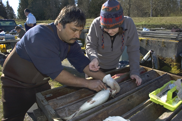 Steelhead hatchery broodstock inspection. Major Success in Lower Elwha Klallam Steelhead Broodstock Program